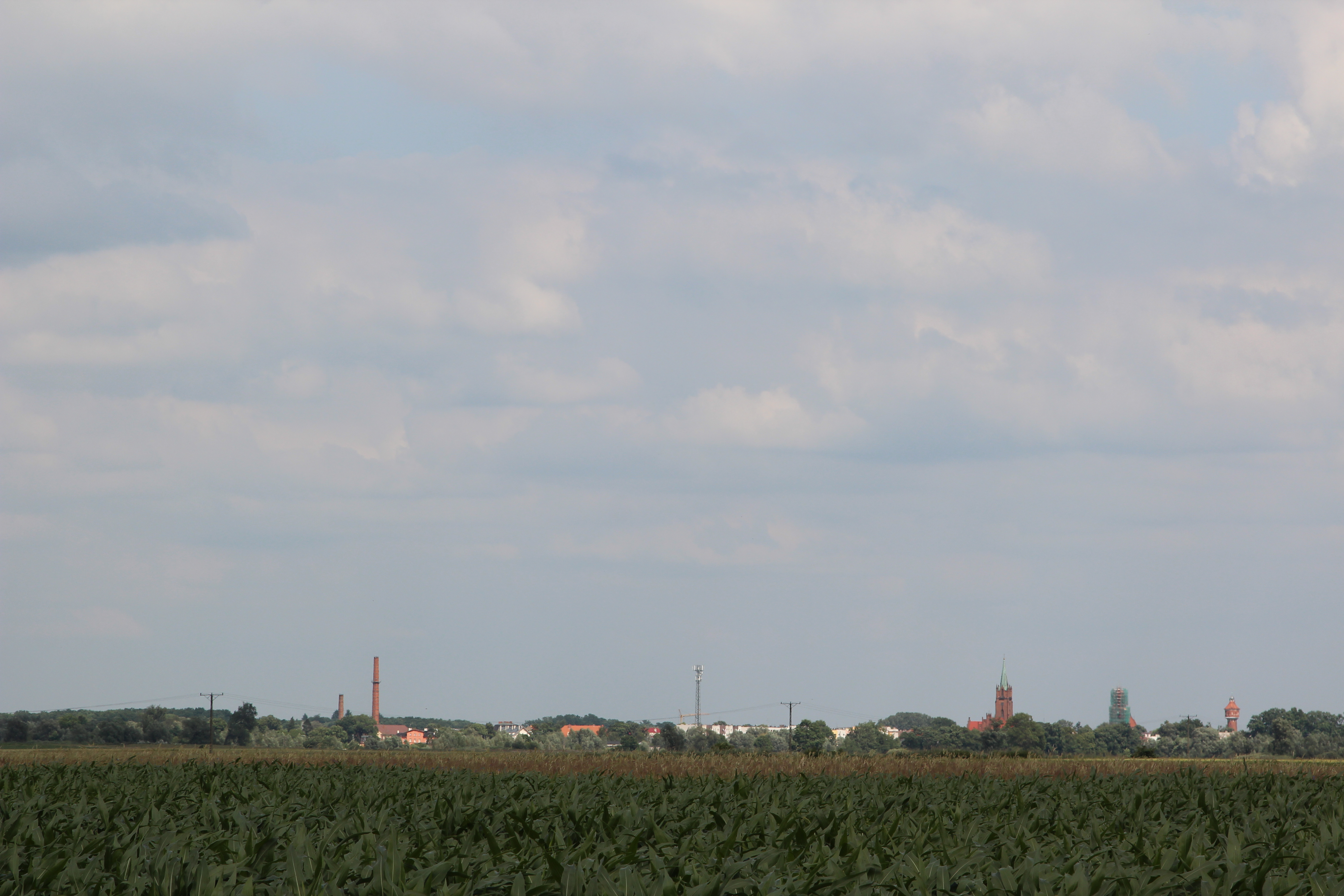 General view of Żmigród